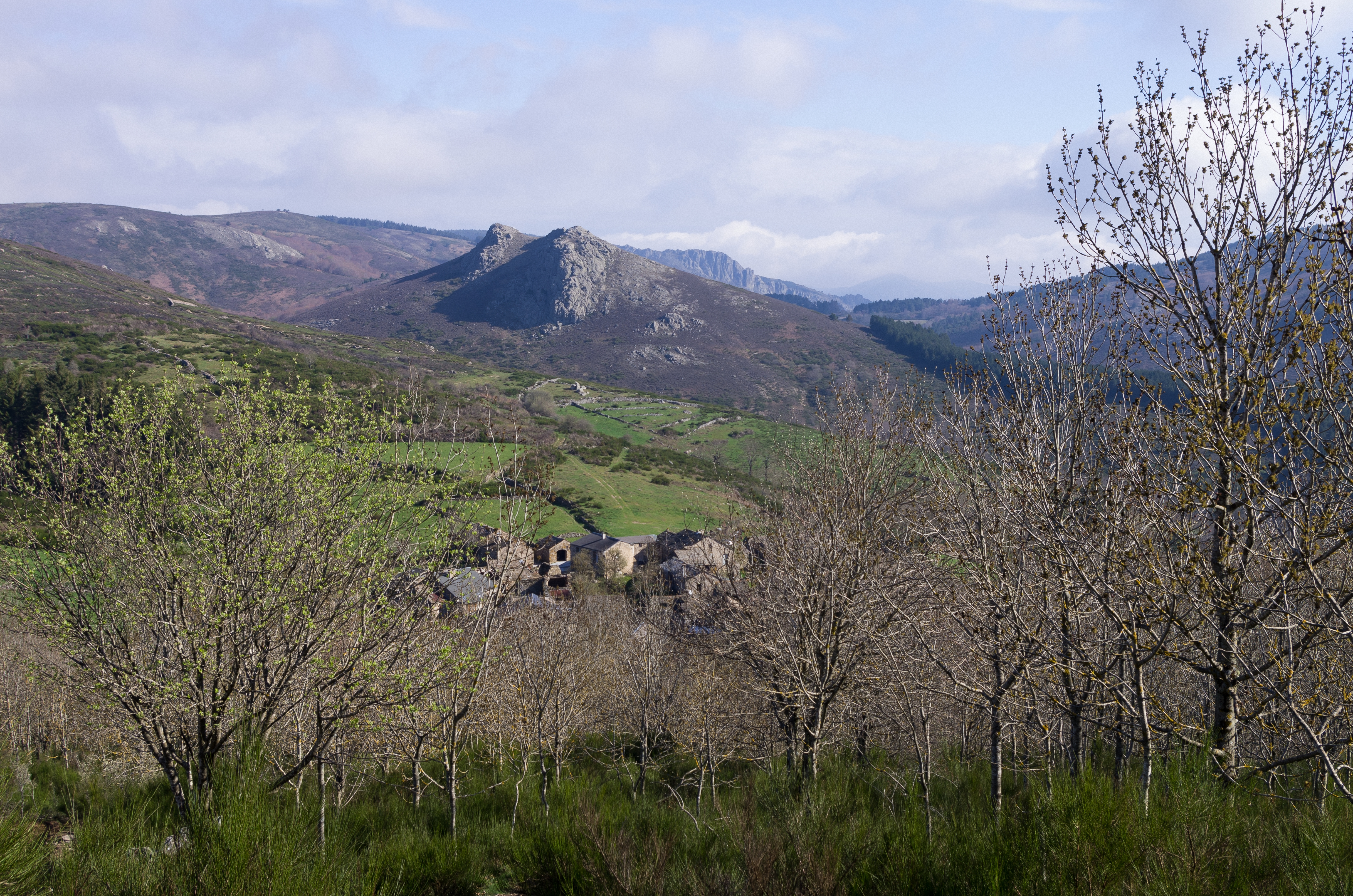 The hamlet of Douch, commune of Rosis, Hérault, France. Massif du Caroux. Haut-Languedoc Regional Natural Park.